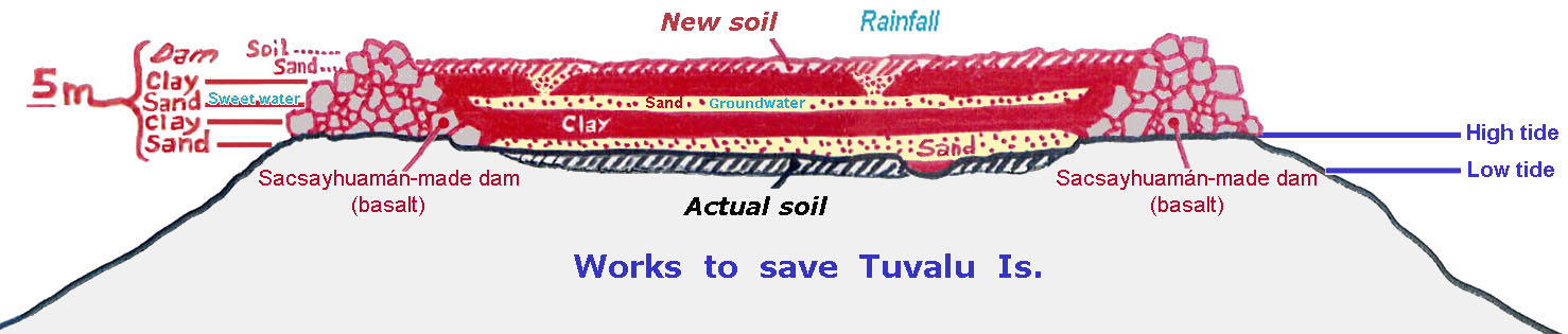 Tuvalu : works for prevent the sea level elevation